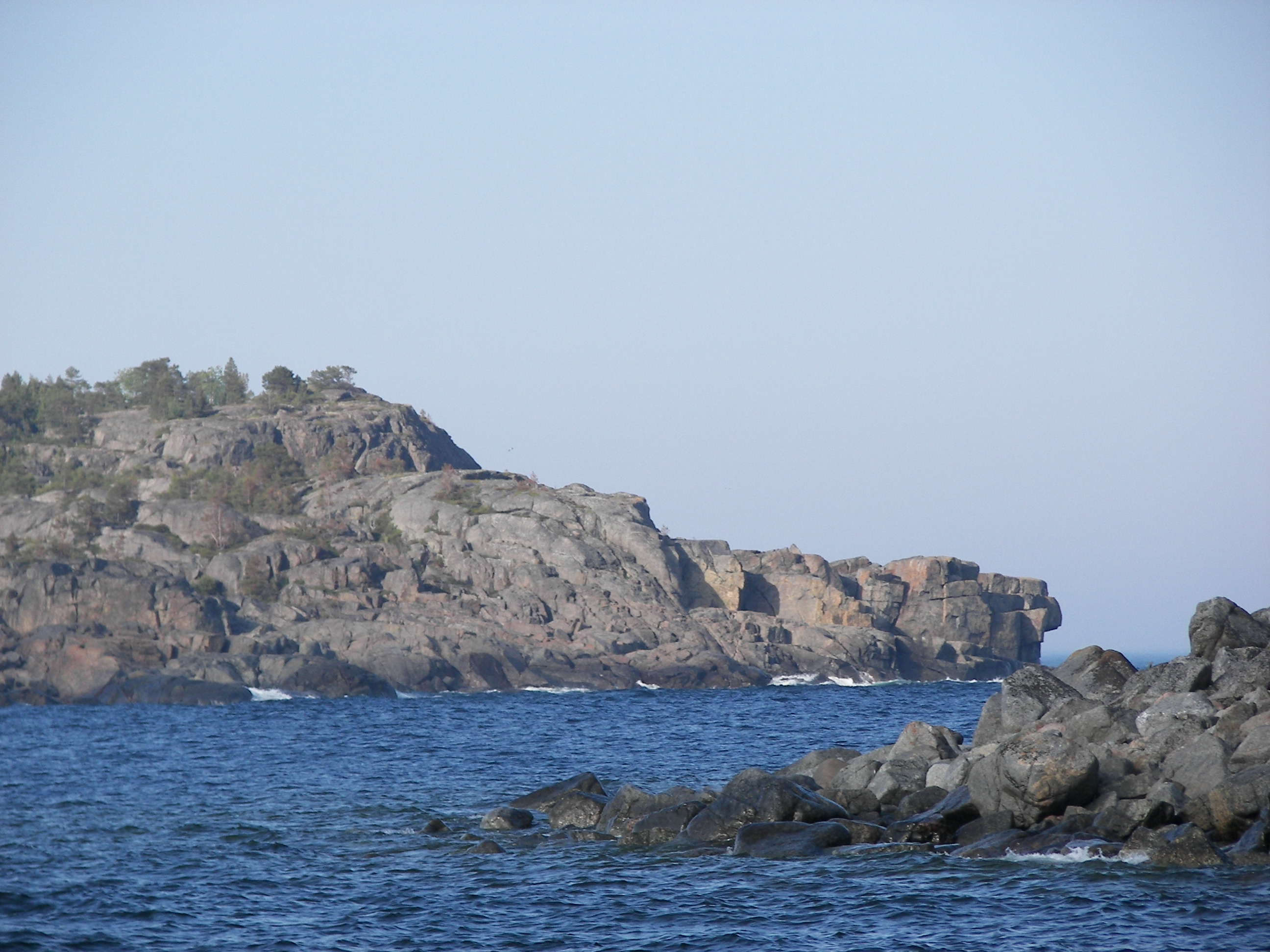 Höglosmen, High Coast, Sweden - Malviksudden